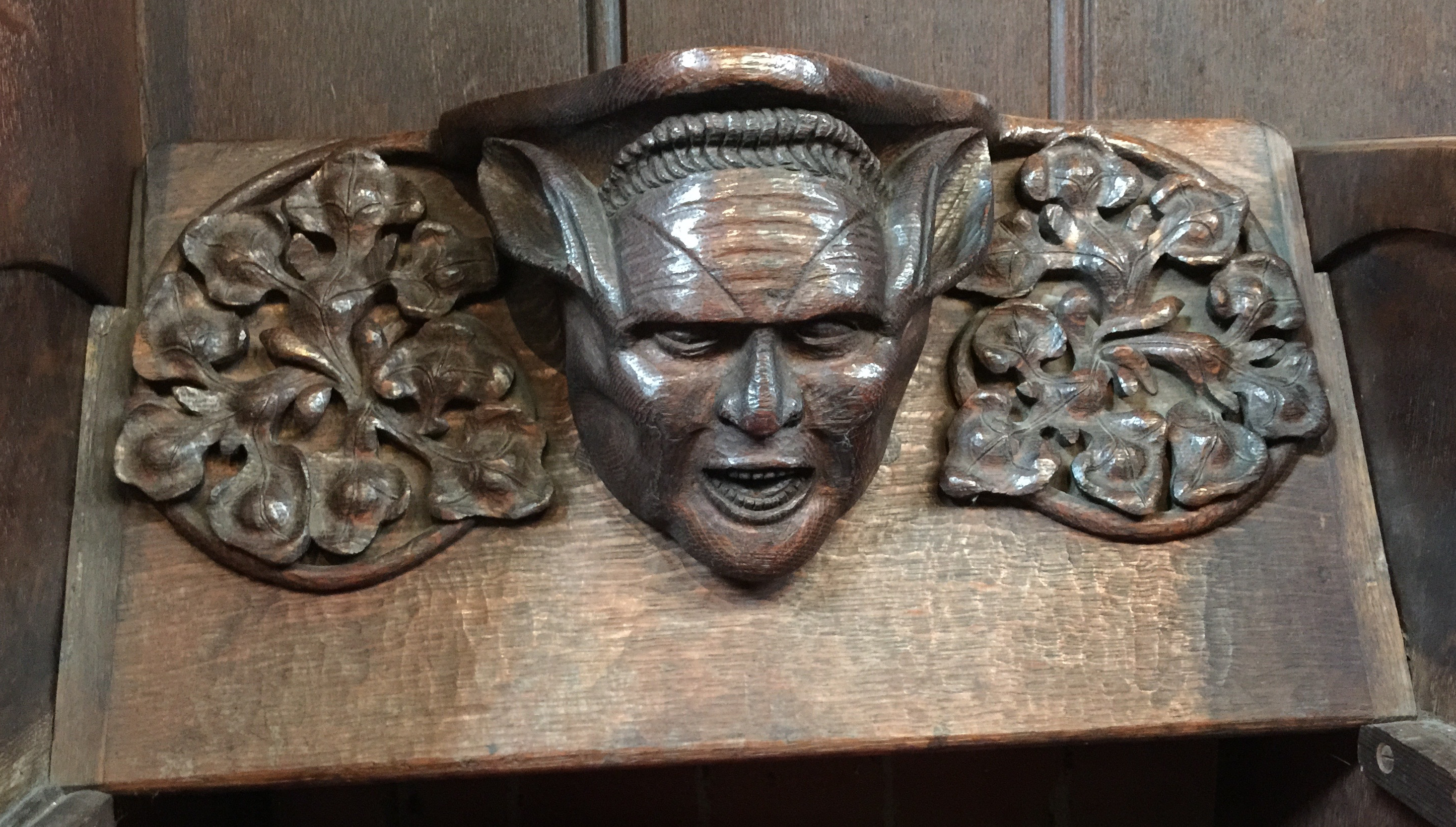 St Cuthberts Kensit Misericord